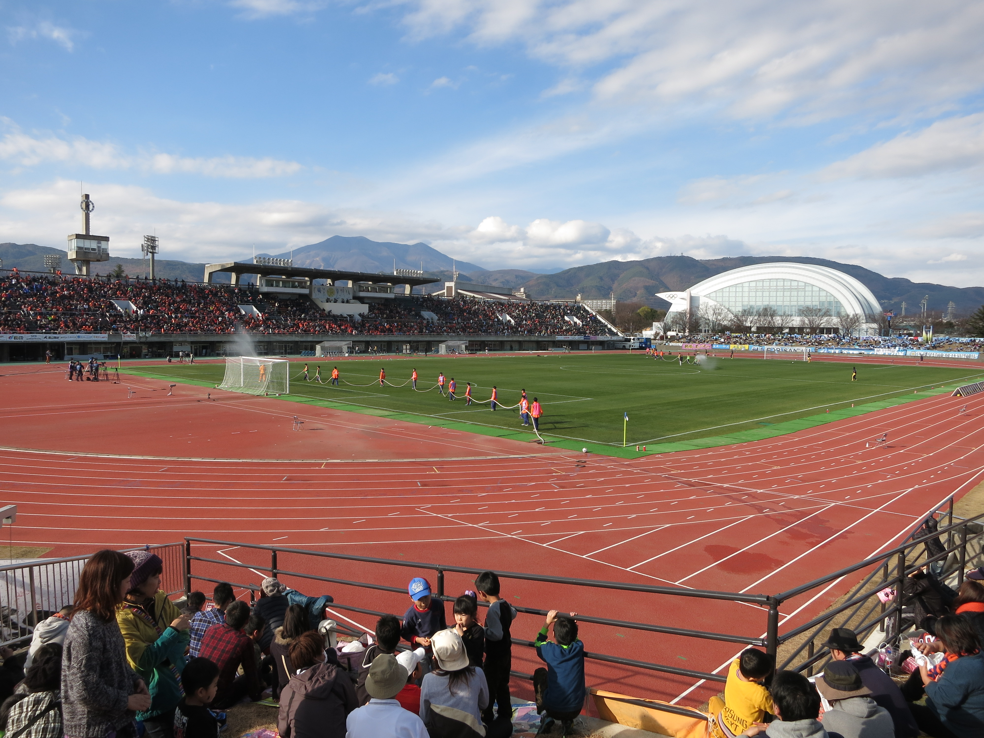 Nagano-City athletics stadium